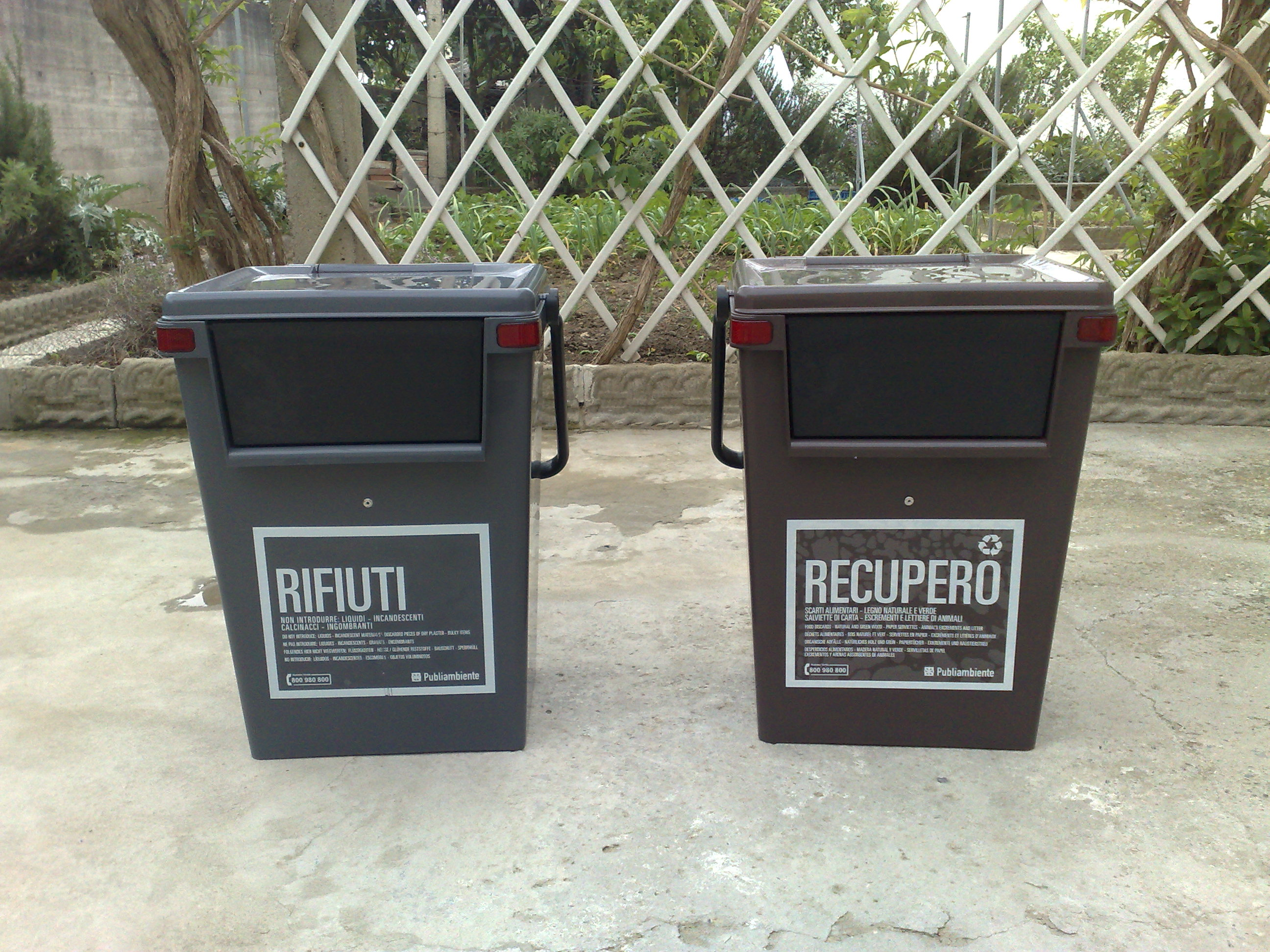 Rubbish bins for curbside waste collection